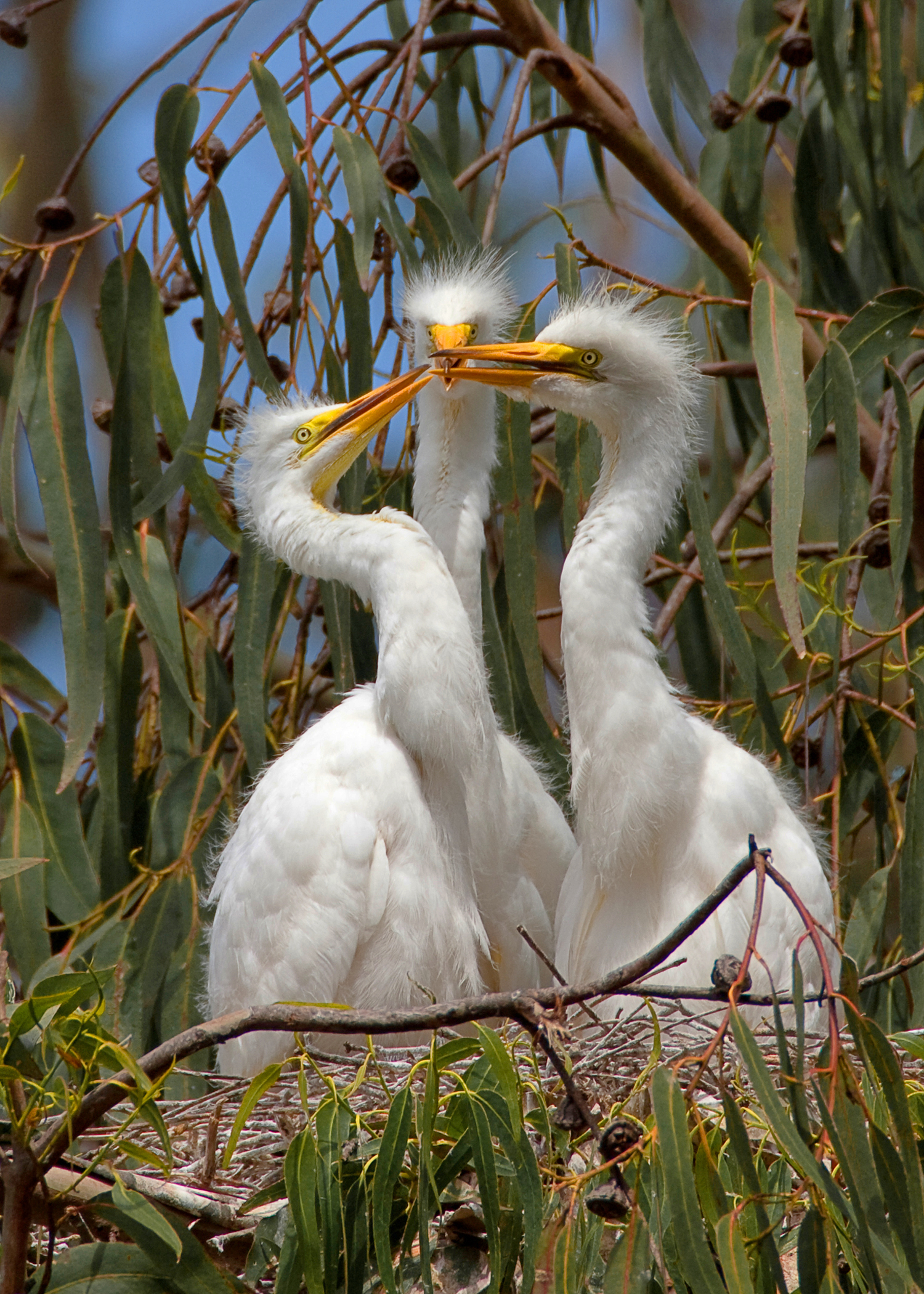 Great Egret (Ardea alba) nest with three chicks at the Morro Bay Heron Rookery at Fairbanks Point just north of Windy Cove and the Museum of Natural History, Morro Bay, CA, USA.